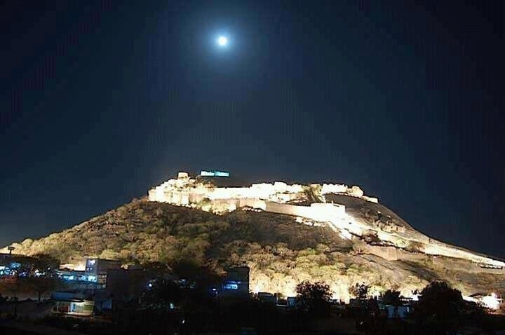 Khammam fort as seen on a fullmoon day., This picture is of Bhongir Fort and NOT Khammam Fort